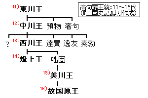 the geneology of Goguryeo( 11th King ~ 16th King) / 高句麗王系図(11代～16代)